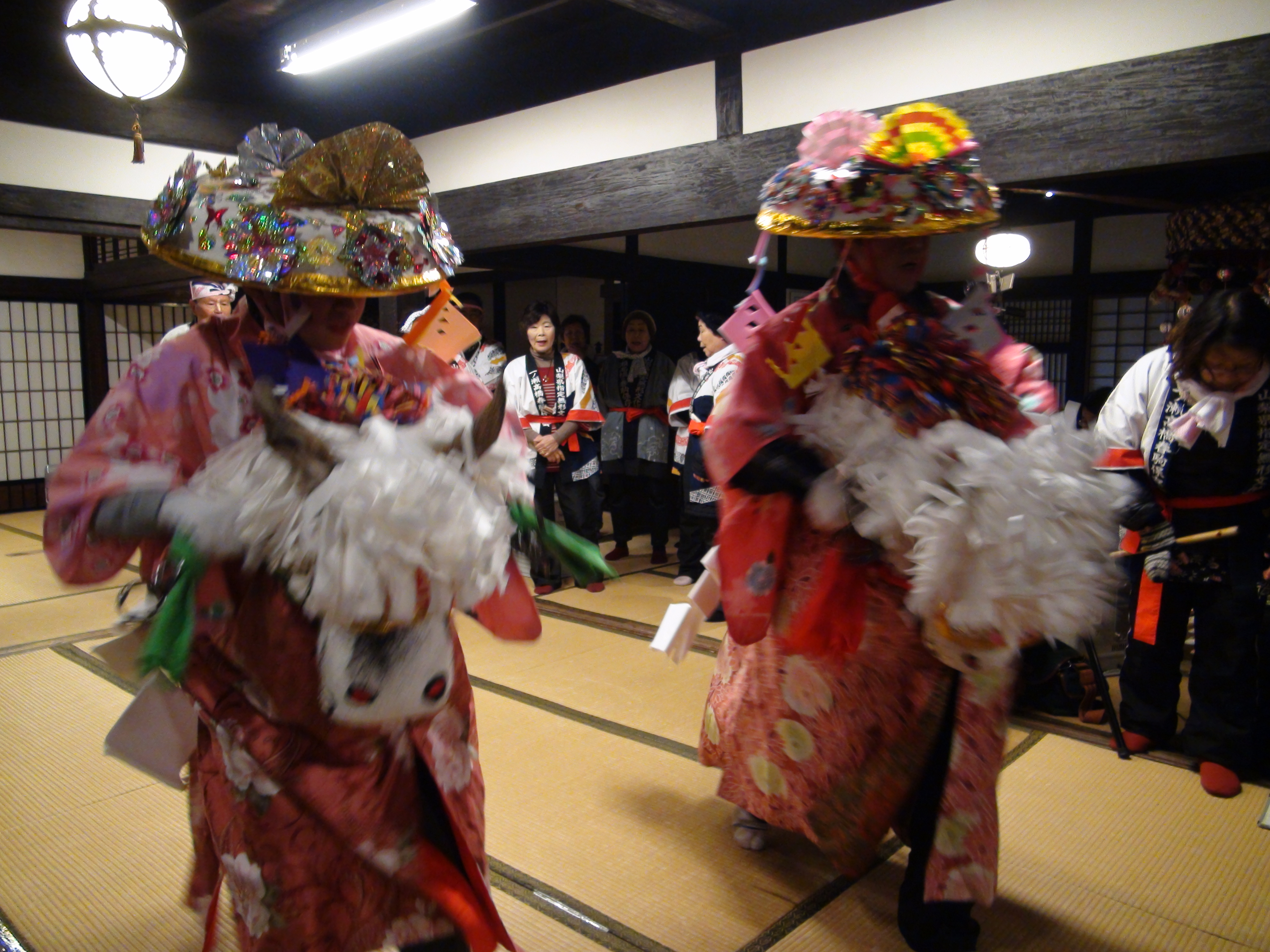 Ichinose Takahashi no Harukoma(Traditional folk festival of the Lunar New Year, Ichinose takahashi Harukoma cockhorse) Indoors